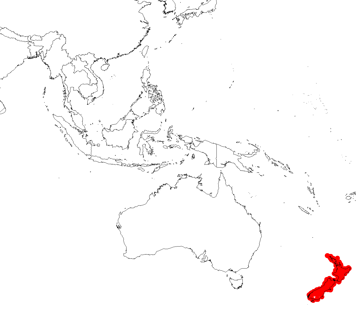 Parsonsia capsularis Occurrence data downloaded from (21 December 2018) GBIF Occurrence Download